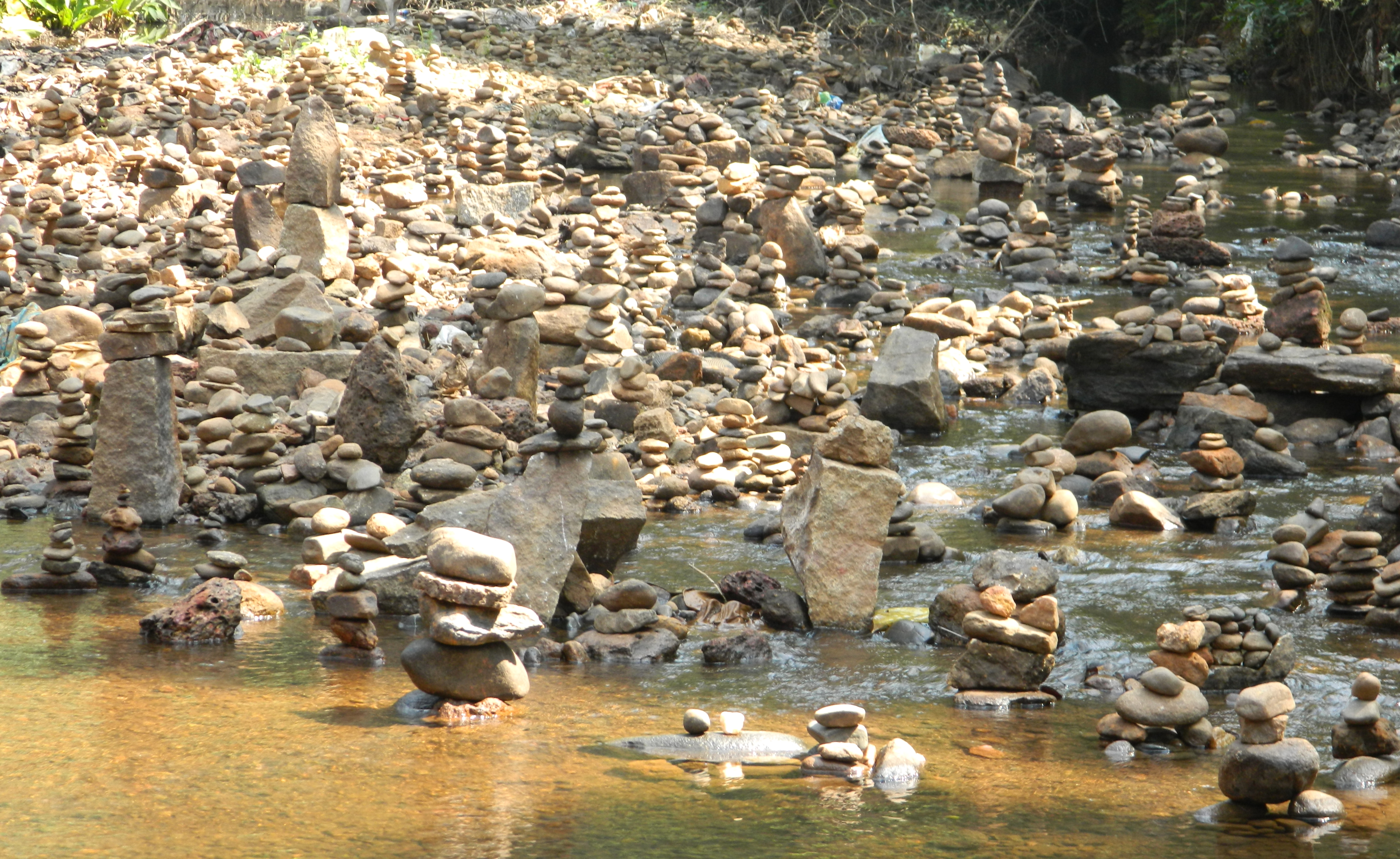 stones are arranged so that it looks like naga sculptures.